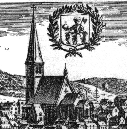 Torshälla Church. Detail of a 17th century engraving from E. Dahlberg's Suecia Antiqua et Hodierna.